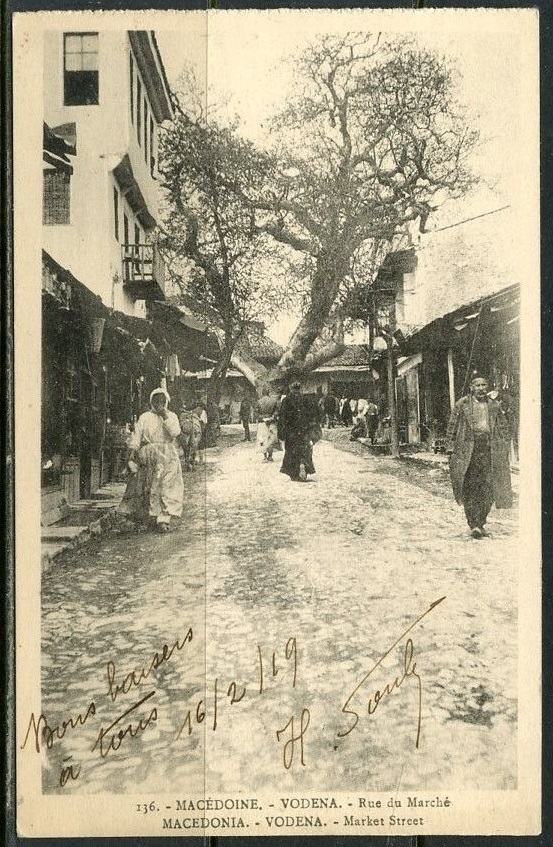 Voden Market Street